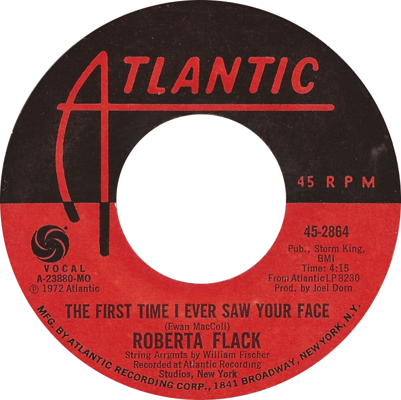 Side-A label of the 1972 US single release of "The First Time Ever I Saw Your Face" (1969) by Roberta Flack